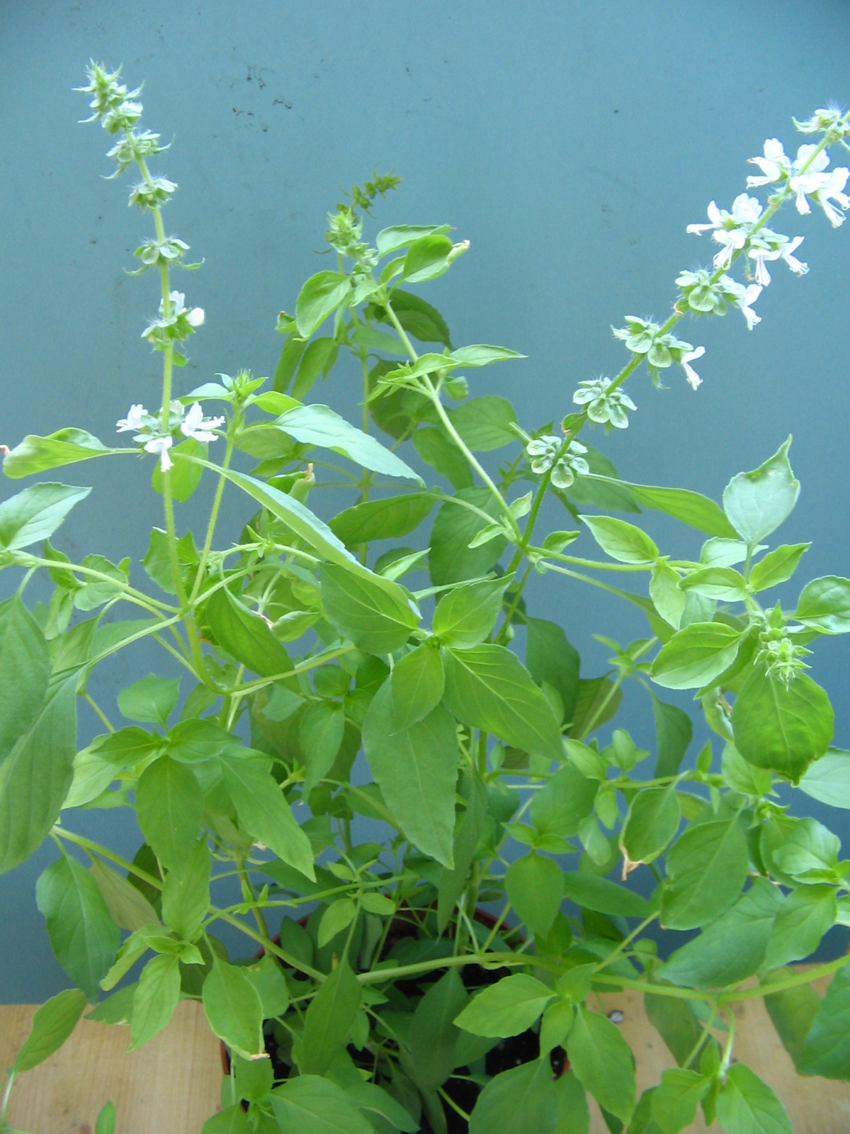 Ocimum ×citriodorum, known as lemon basil or "kemangi" in Indonesia. Shoots are eaten raw after washing.